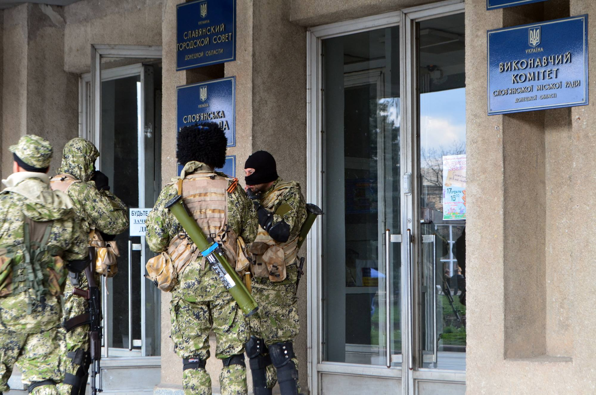 Sloviansk city council under control of armed forces. The masked men are holding Kalashnikov assault rifles (AK-74) and having rocket launchers on their backs (very similar to Soviet/Russian RPG-26).